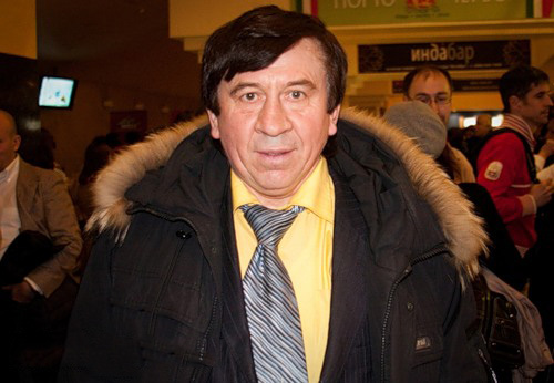 Permyakov premierre